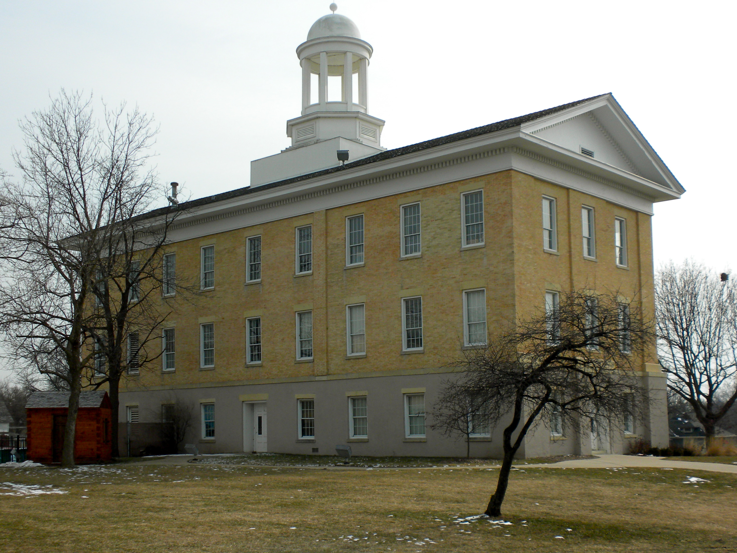 Old Main building from 1856 at Elgin Academy, Elgin, Illinois